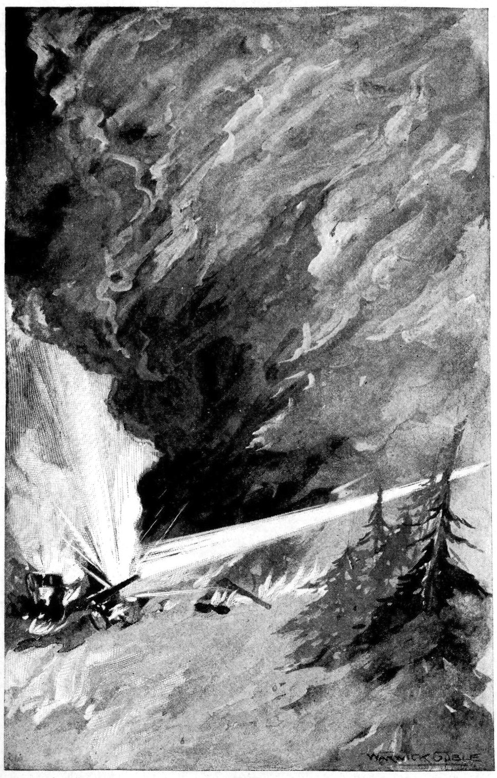 pg 105 of War of the Worlds.